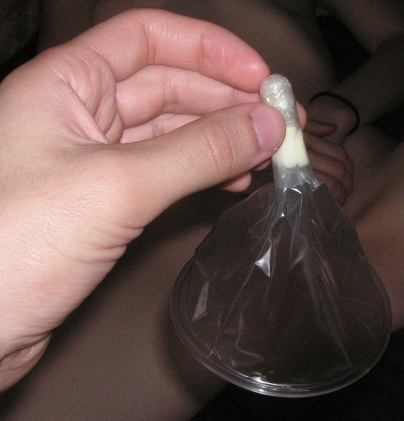 This is a newer type of female condom which doesn't have the ring at the end which provides more comfort for men with large members. The pill shaped tip is inserted into the vagina and there it dissolves within seconds, foam capsules are attached to the sides of the condom in the middle of the condom which keeps the condom in place within the vagina. This condom is an alternative to the female condom with the hard ring at the end which can cause discomfort when penetrating deeply.